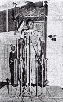 Mobutu swearing in again as president of the Democratic Republic of the Congo following his "reelection" in November 1970